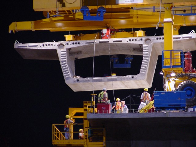 Photograph of a segmental bridge on the "Dallas High Five" (Intersection in North Dallas of Interstate 635, LBJ Freeway, and US Highway 75, Central Expressway) project in Dallas, Texas, USA. from U.S. Department of Transportation, Federal Highway Administration.